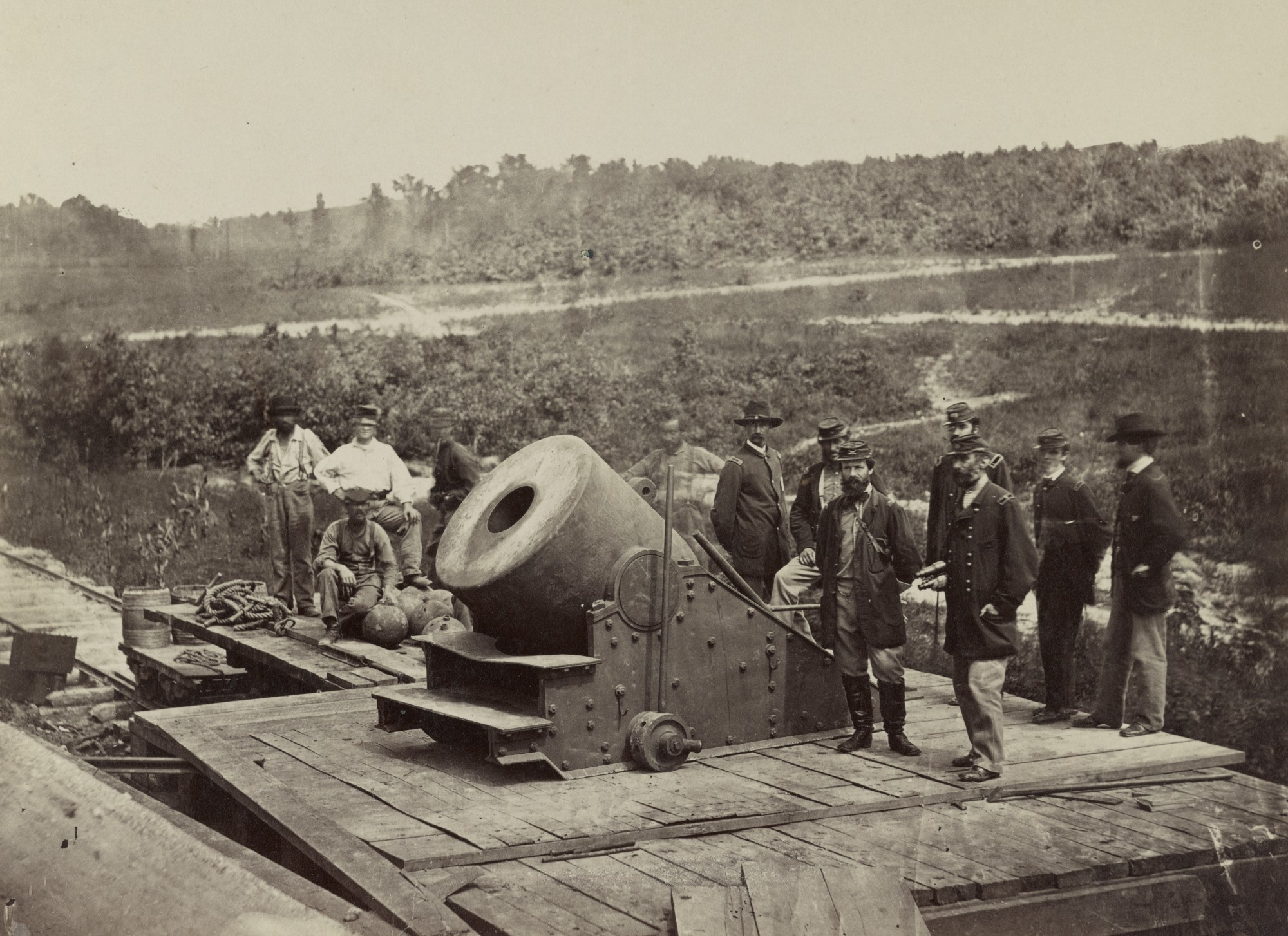 Albumen photograph shows Union officers and enlisted men standing on a platform with the 13 inch "Dictator" mortar, outside Petersburg, Virginia.